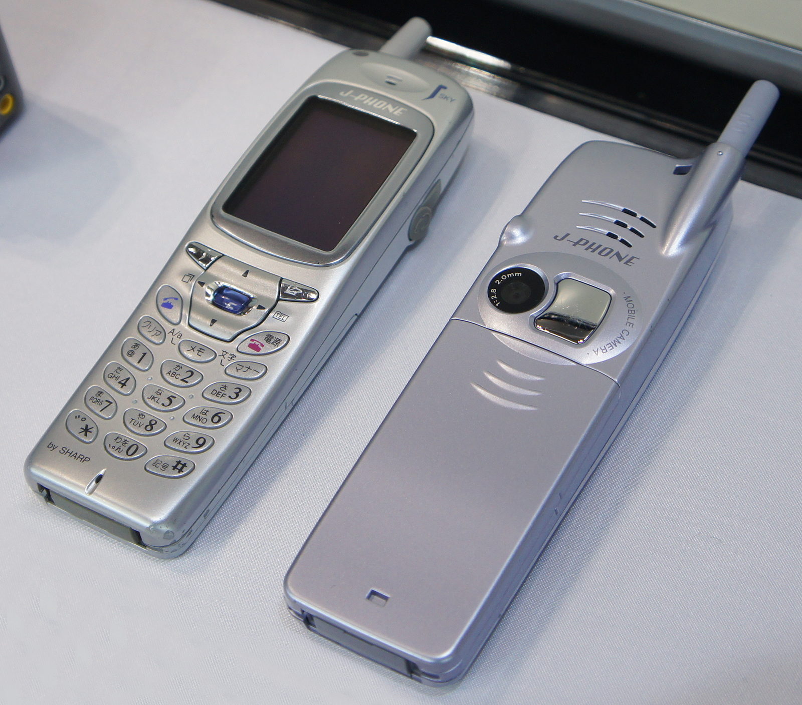 CP+ 2011: 2000 Sharp J-SH04